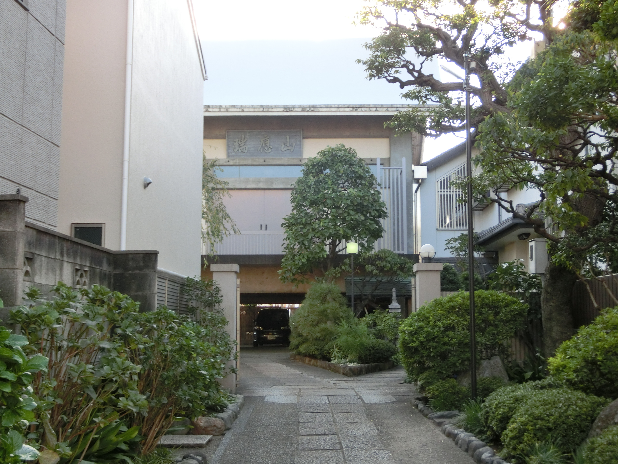 Myoun-ji (Taito)